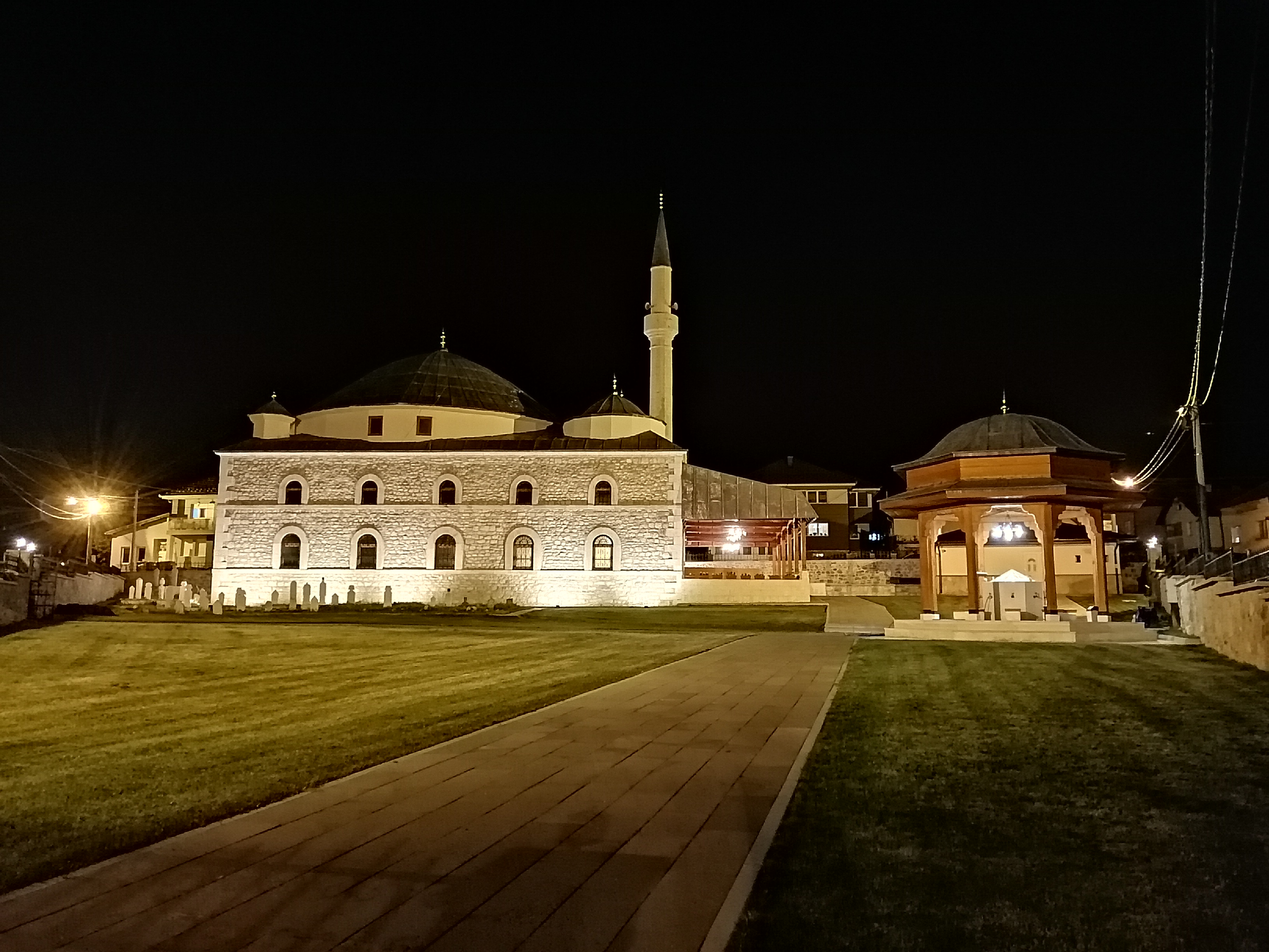 Valide Sultan mosque in Sjenica Srpski (latinica): Džamija Valide Sultan